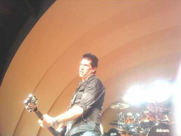 Jeff Worley of American rock band Jackyl performing at The Cotillion Ballroom in Wichita, Kansas on October 29, 2011.